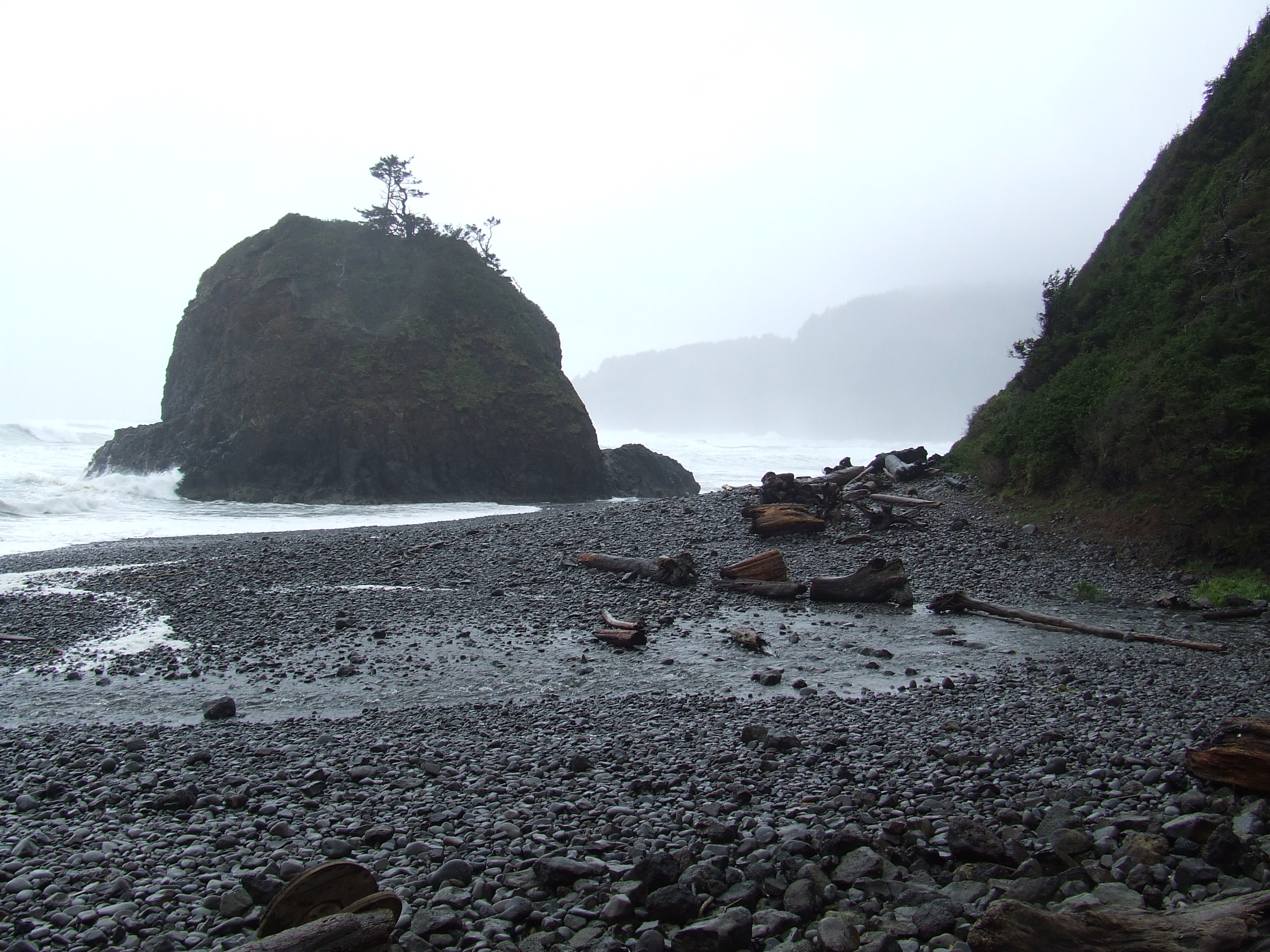 Short Beach on a rainy spring day. In Tillamook county, Oregon.